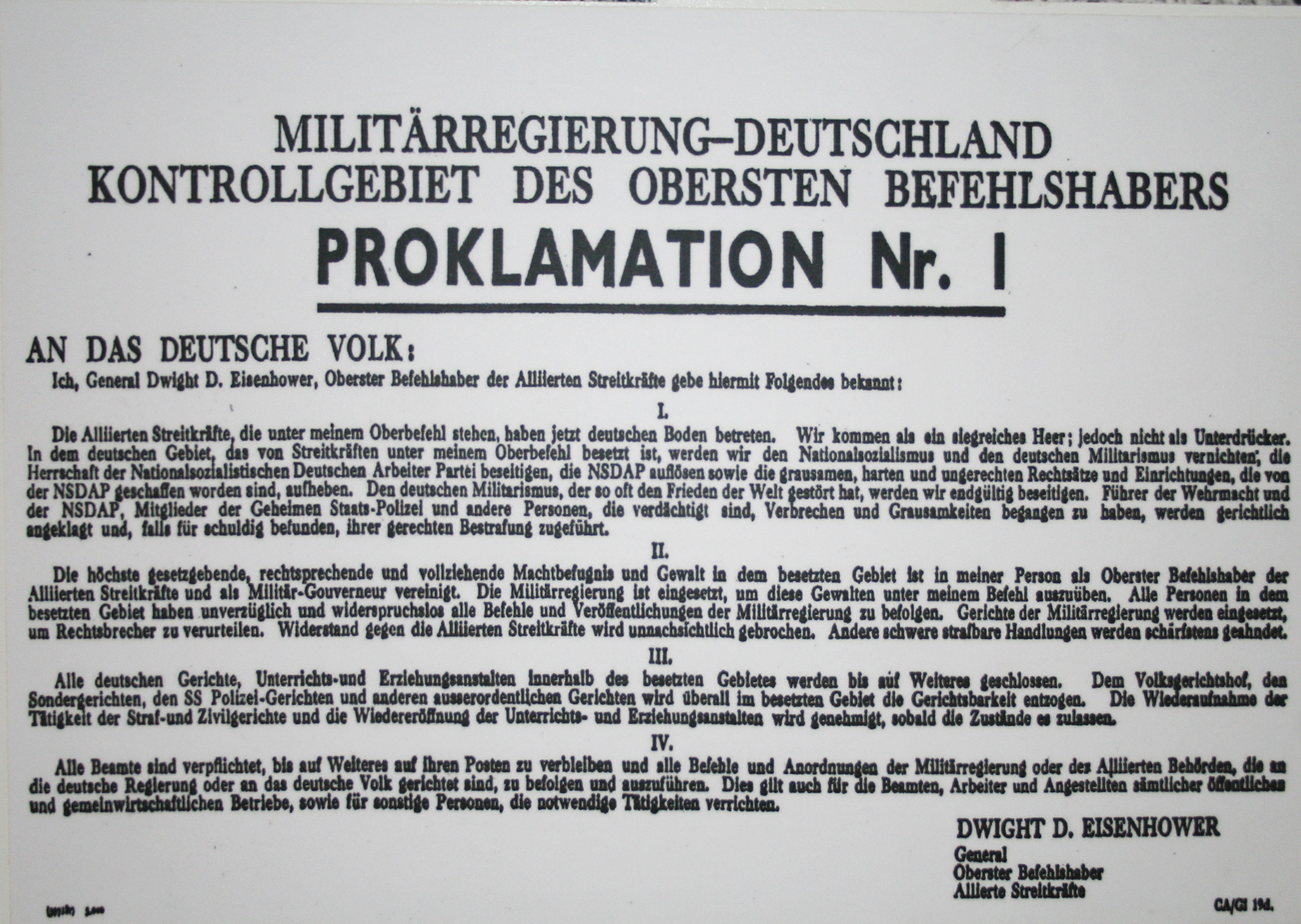 Proclamation No. 1 of General Eisenhower to the German people, March 1945